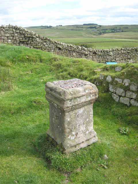 Altar Stone at Aesica Roman Fort Aesica Roman Fort is one of the forts on the line of Hadrian's Wall Hadrian's_Wall which is followed closely by a popular National Trail The altar stone appears to be a spot where passing visitors have decided to leave small monetary donations (or is it a good luck offering?)